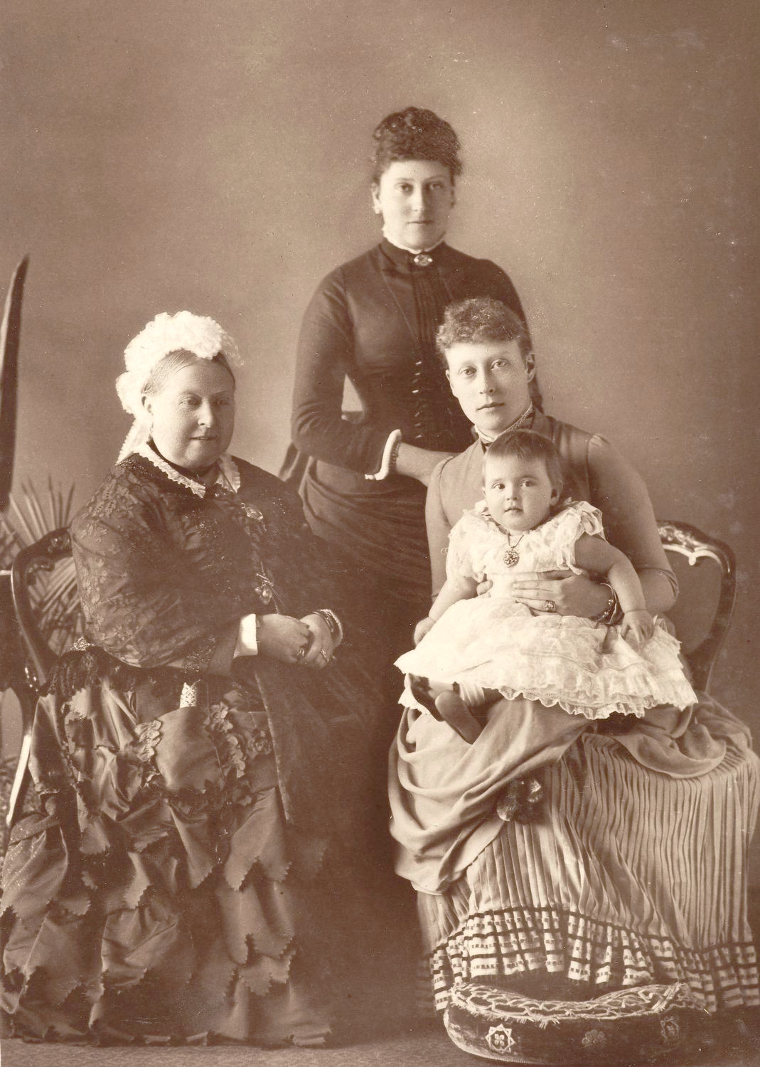 Left to right: Queen Victoria, seated, smiling; Beatrice, Princess Henry of Battenberg, standing; Victoria, Princess Louis of Battenberg, seated, with Princess Alice of Battenberg on her lap.